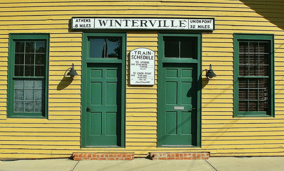 Winterville Historic District